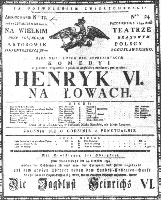 Playbill of the "Henryk VI na łowach" by Wojciech Bogusławski, 1799.